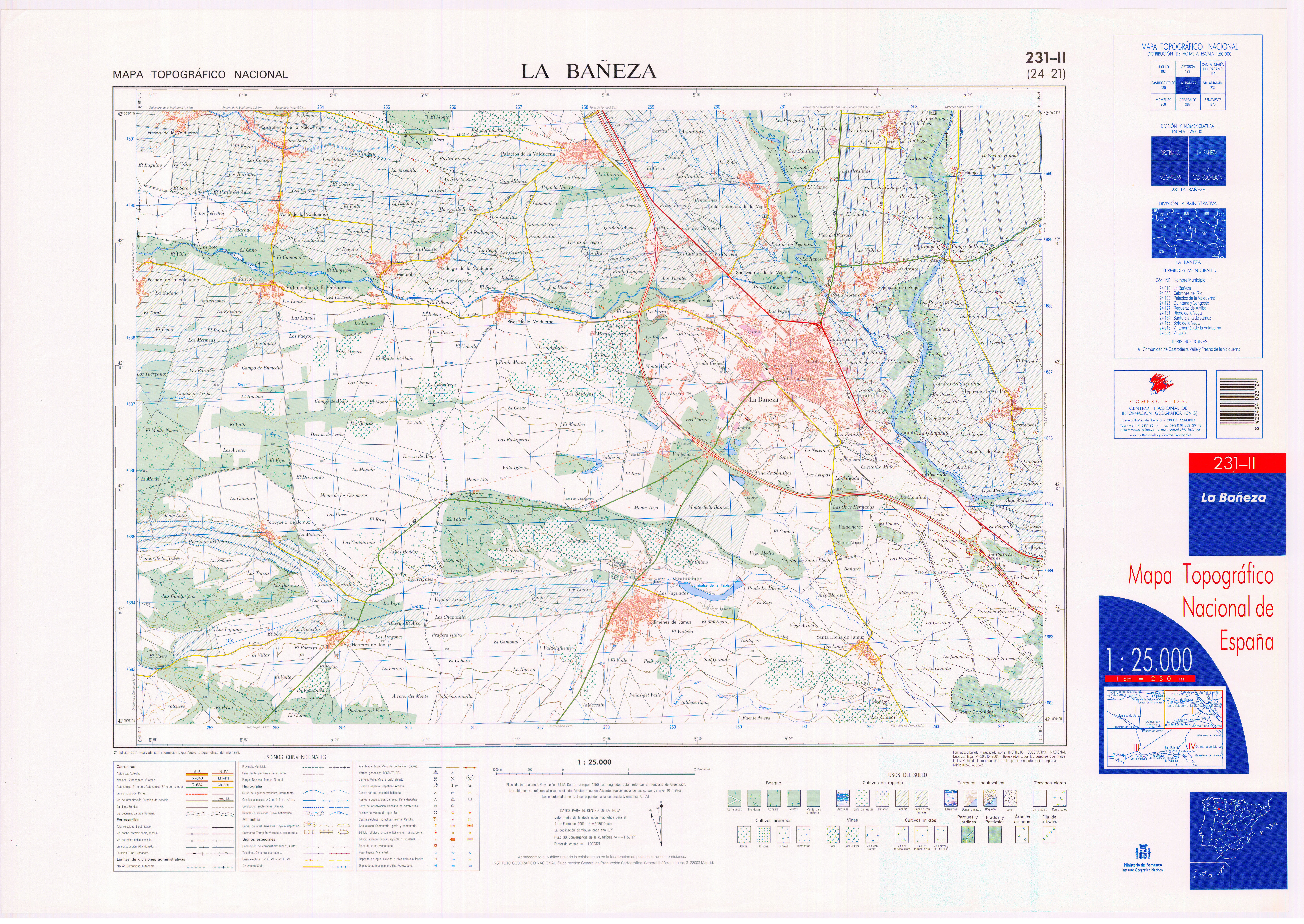 Fragment 0231c2 of the National Topographic Map of Spain in 2001 at a scale of 1:25000 printed and scanned with a resolution of 250 ppi. It shows La Banieza.